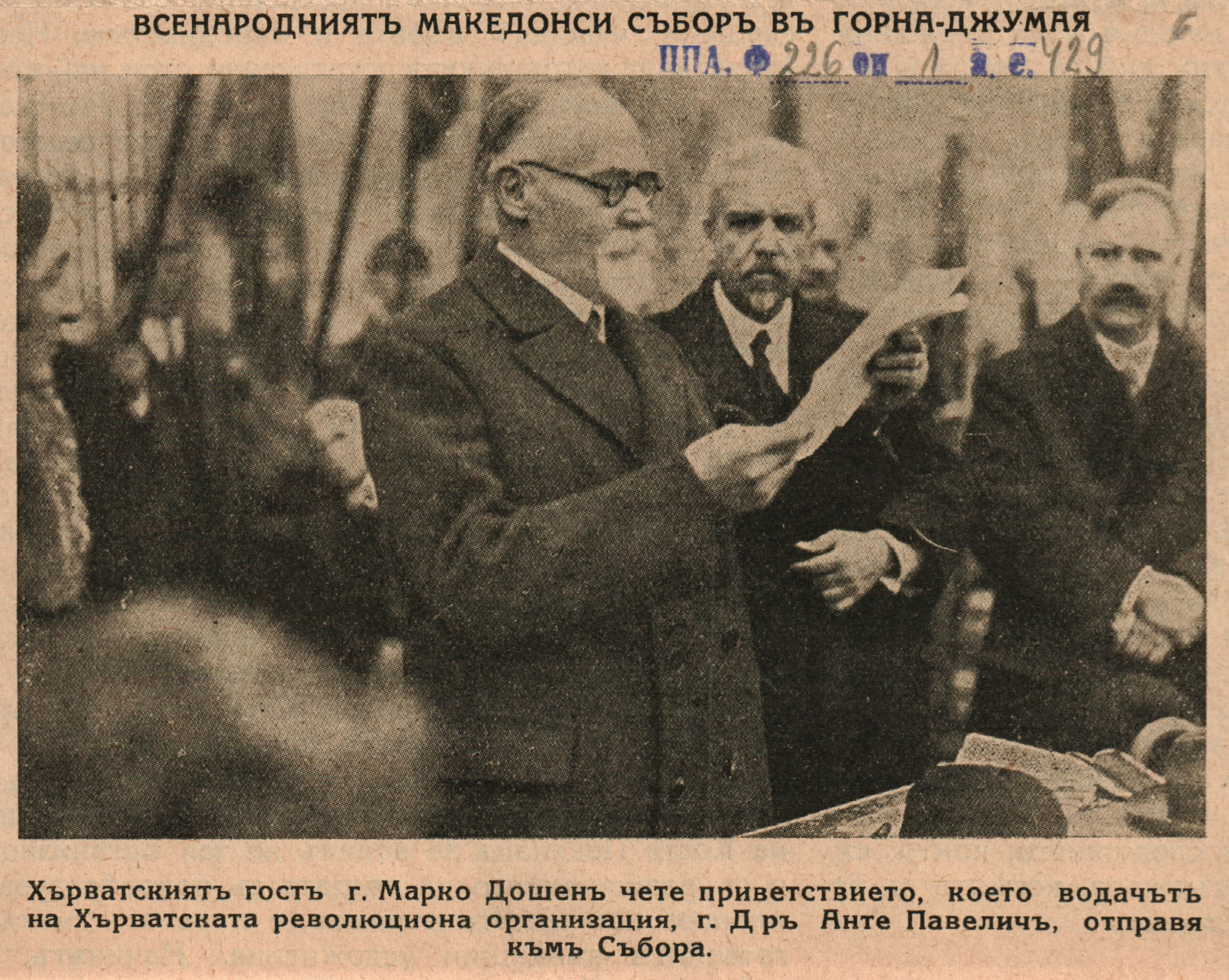 Photo from the Macedonian National Council, 1933 in Gorna Dzhumaya (Blagoevgrad).